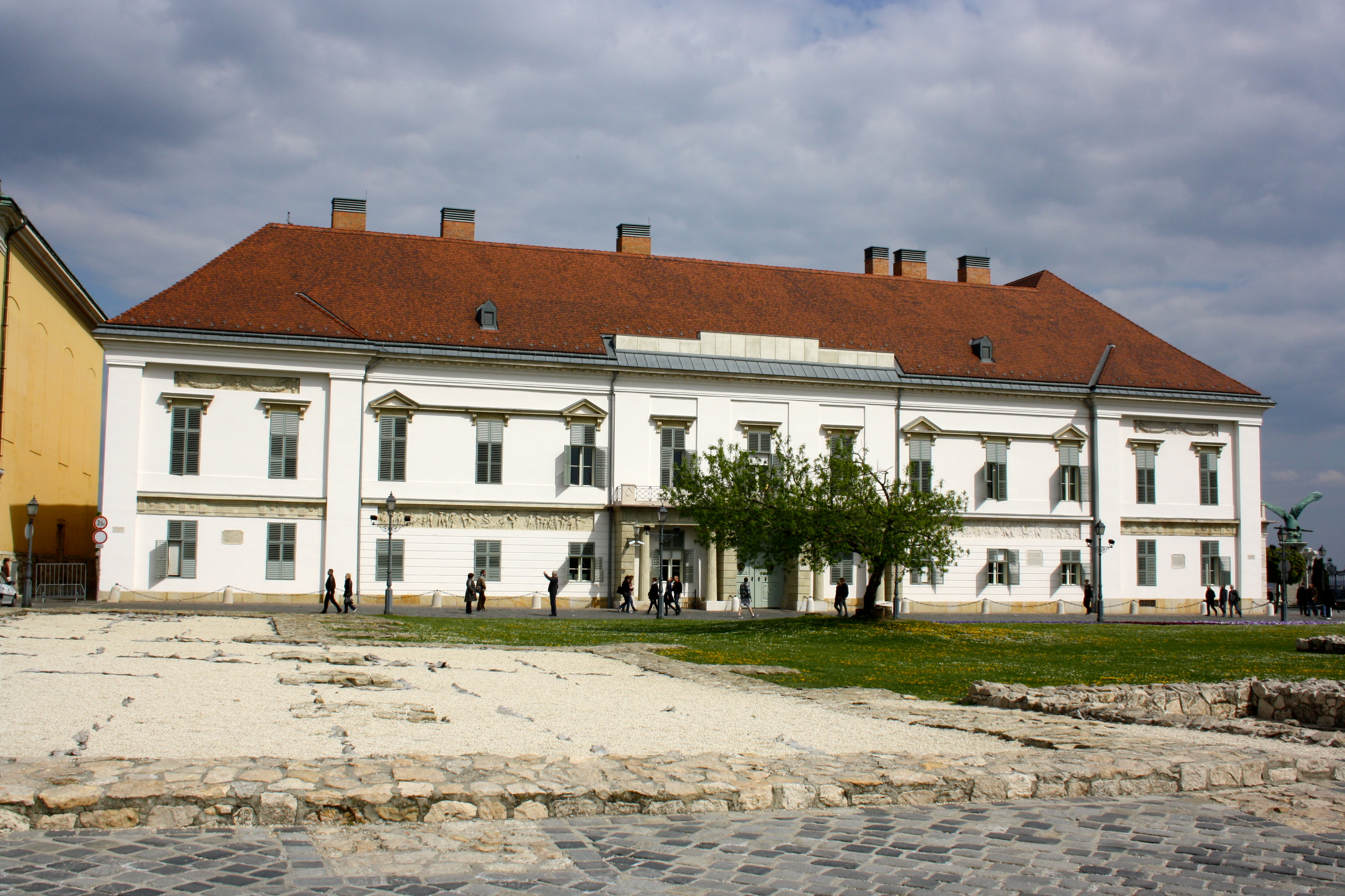 Sándor Palace, Buda Castle.